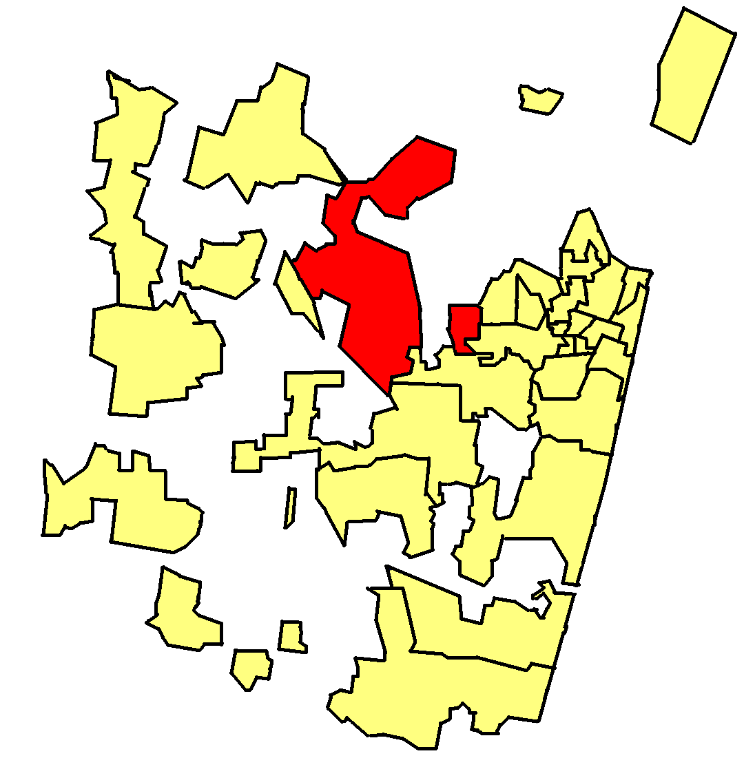 Map showing the Oussudu constituency in Puducherry, amongst constituencies 1 to 23 (the 23 constituencies in the area around Puducherry district)